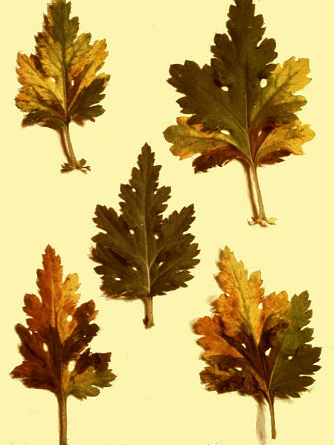 Picture of Chrysanthemum leaf damage caused by Aphelechoides ritzemabosi